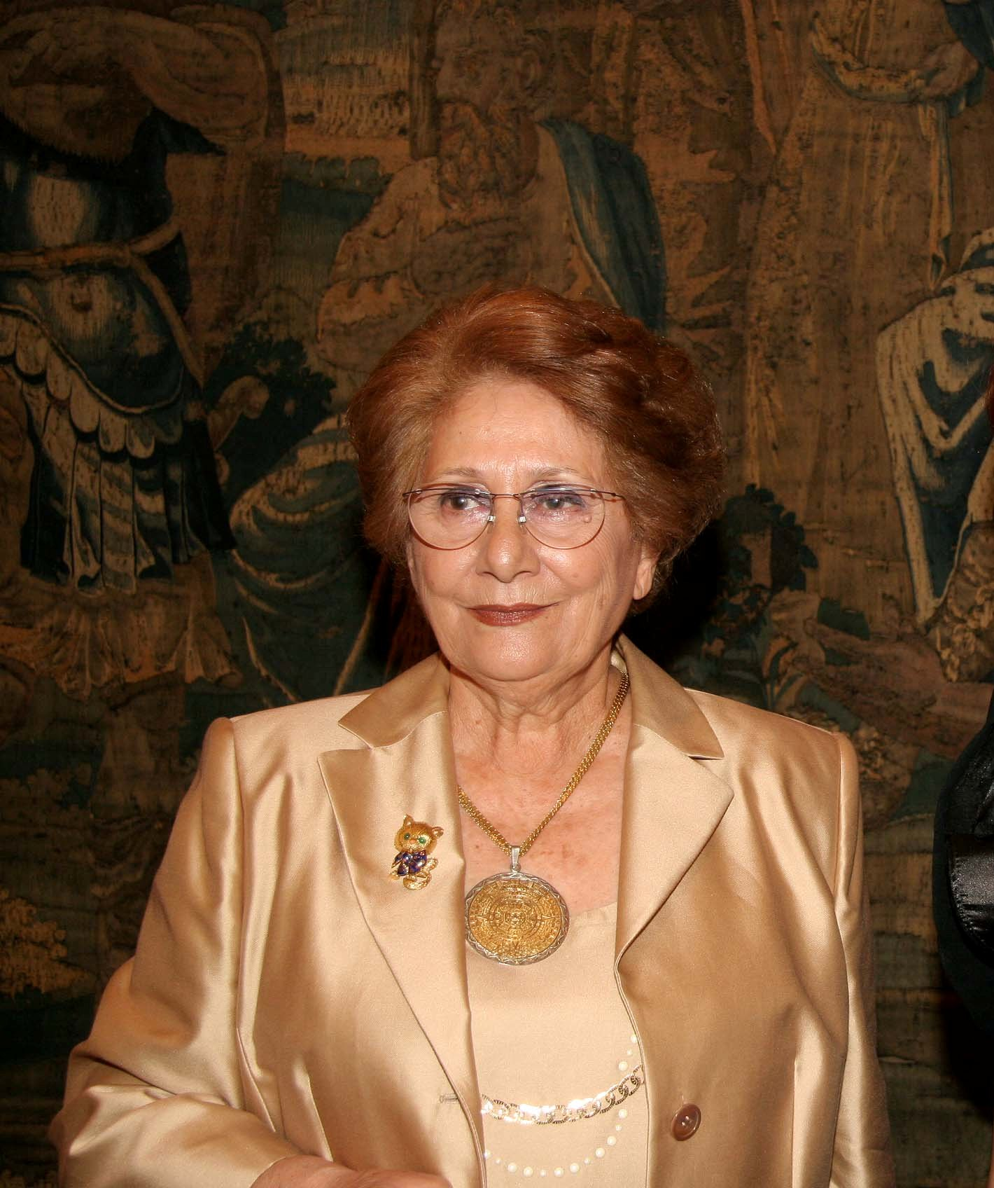 Sana Solh delivers the opening speech at the Golden Jubilee ceremony to celebrate the 50th anniversary of Al Amal Institute for the Disabled at the Bristol Hotel in Beirut in 2009.